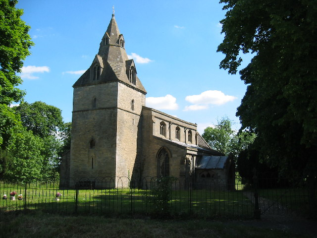 St Thomas of Canterbury parish church, Burton le Coggles, Lincolnshire, seen from the southwest